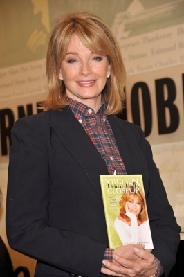 Picture of Deidre Hall from an autograph session that I went to for, "Deidre Hall's Kitchen Close Up."